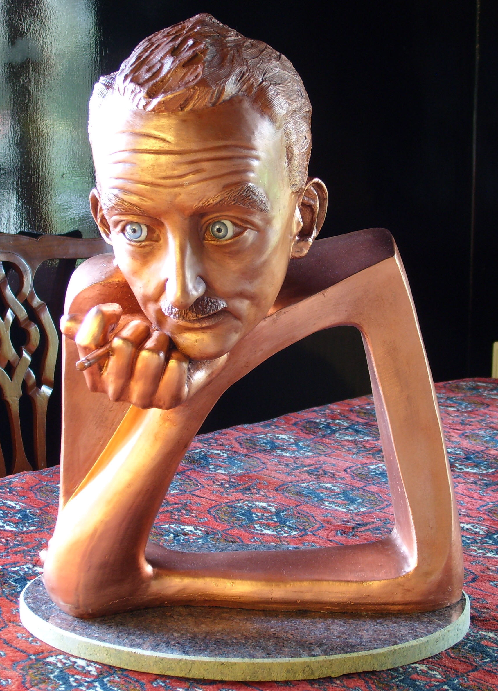 Seán Ó Riada was a brilliant composer and musician during his short life. His celebrated works are Mise Éire and other Irish film scores; his ability to turn Irish traditional music into a broad range of styles from symphonic to jazz inspired me to depict him as a man of the 50's and 60's; a formal unfussy portrait put into a setting, as architecture of the period. The Copper cast portrait above will be followed by a Titanium and a Bronze finish model.